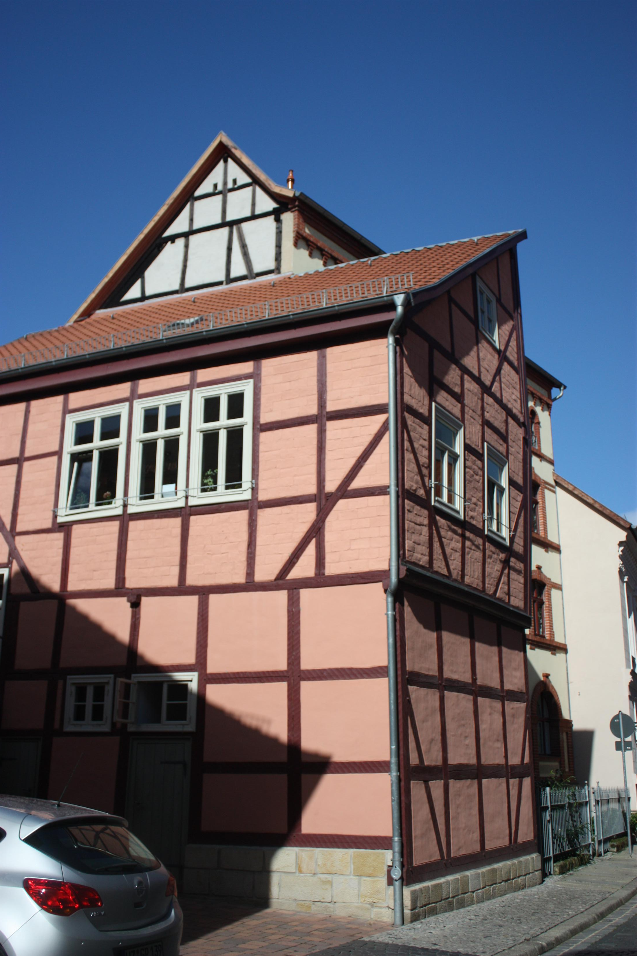 This is a photograph of an architectural monument.It is on the list of cultural monuments of Quedlinburg Quedlinburg Lange Gasse